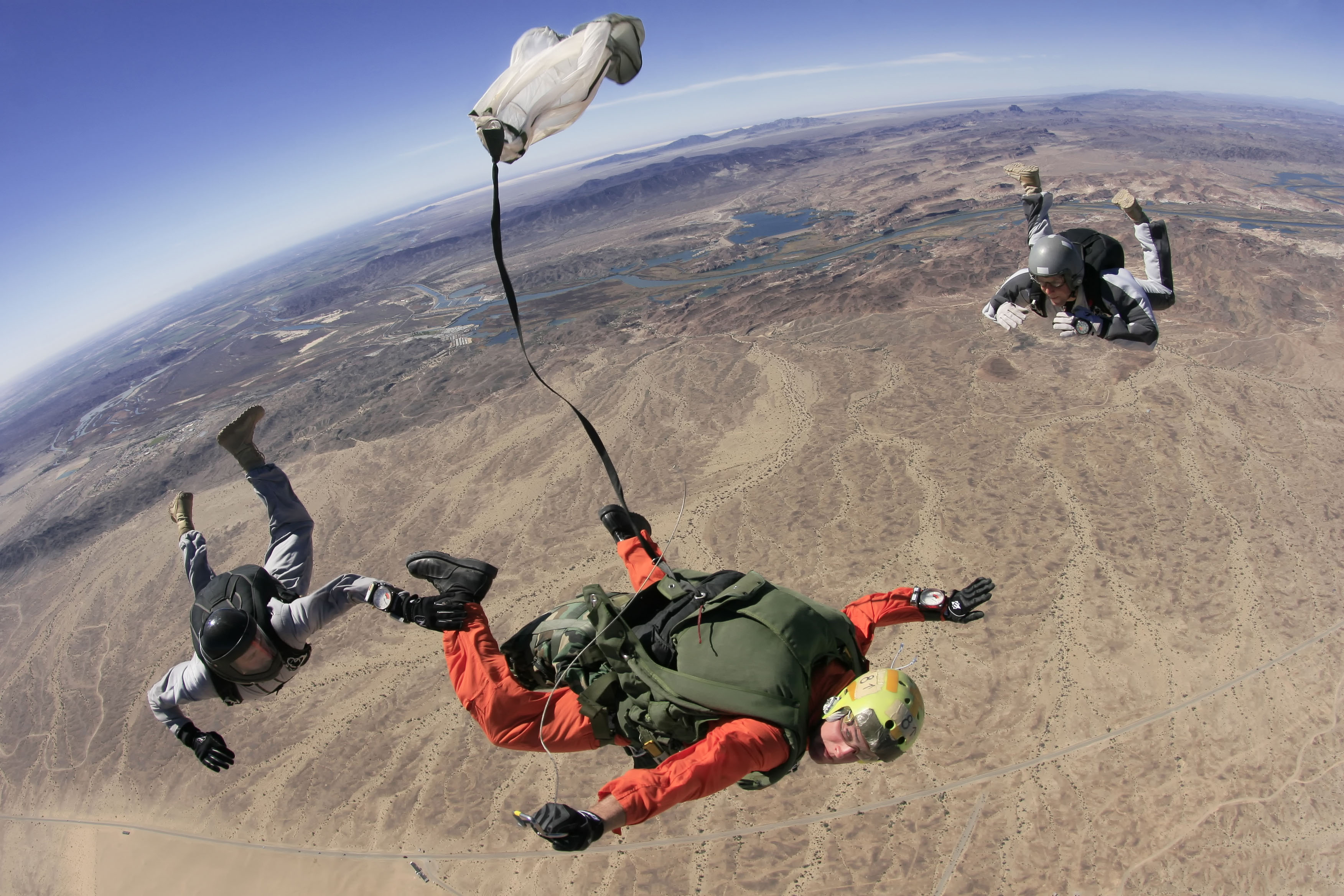 A Special Forces high altitude-low opening jumper pulls his rip cord while two instructors observe and critique his jump. The jumper is approximately 4,000 feet above the ground at Yuma Proving Grounds, Ariz. (The view is west, mostly W-Southwest.) The Colorado River, with Senator Wash Reservoir (All-American Canal), and Mittry Lake. Martinez Lake on the Colorado is at photo right. The Cargo Muchacho Mountains are center, on horizon; the Chocolate Mountains, closer to the river, (lower elevation), 2 Wilderness Areas; (Picacho Peak is visible to photo right, north part of mtns). (the Laguna Mountains (Arizona), at photo left, on the Colorado River)